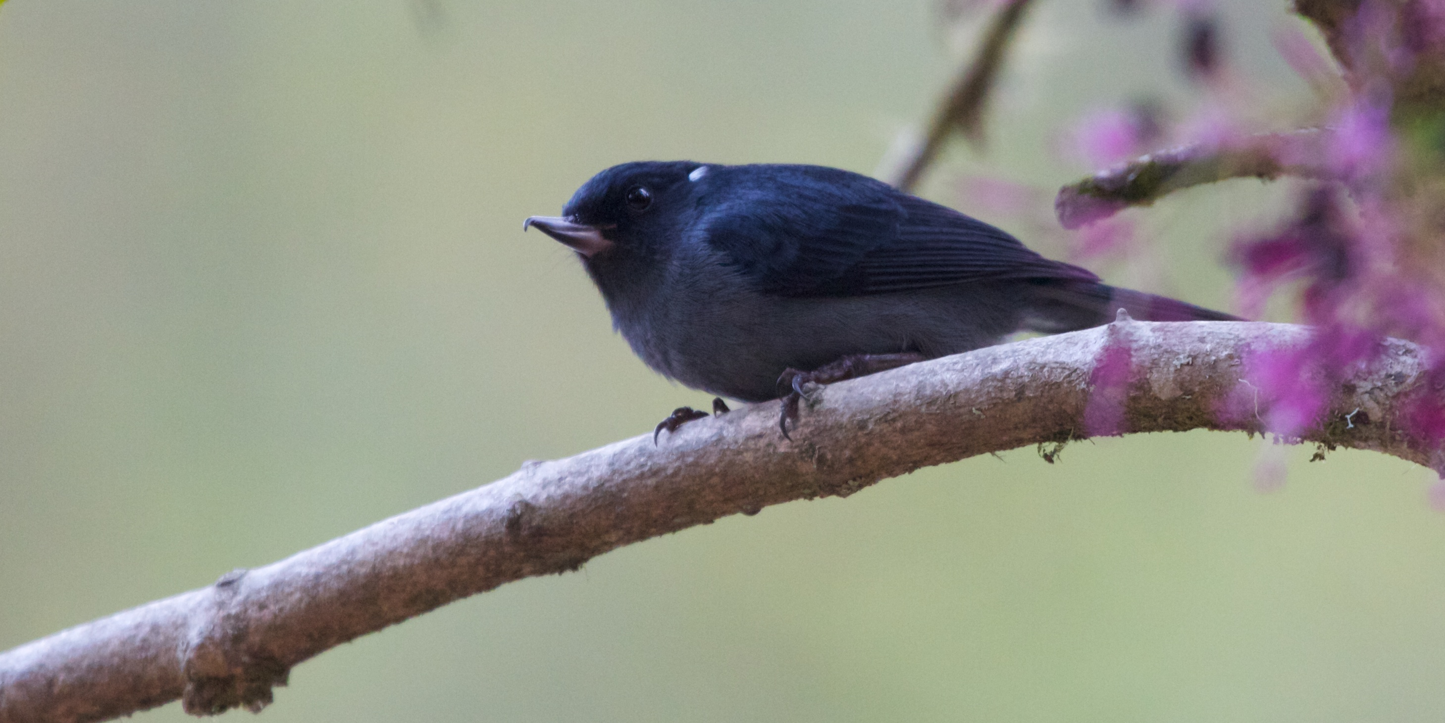 A male Slaty Flowerpiercer in Limón, Costa Rica.